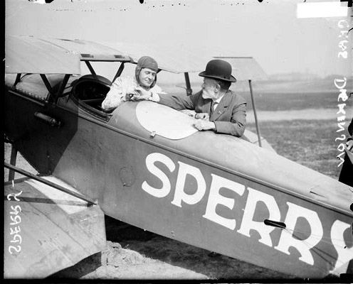 Aviator Lawrence Sperry sitting in an airplane and holding the hand of aviator Charles Dickinson. CREATED/PUBLISHED [1923] SUMMARY Informal portrait of aviator Laurence Sperry sitting in an airplane with his name on it and holding the hand of aviator Charles Dickinson in a field in Chicago, Illinois. NOTES This photonegative taken by a Chicago Daily News photographer may have been published in the newspaper. Cite as: DN-0076177, Chicago Daily News negatives collection, Chicago History Museum. SUBJECTS Chicago (Ill.)--1920-1929. Dry plate negatives. Gelatin dry plate negatives. United States--Illinois--Cook County--Chicago. MEDIUM 1 negative : b&w, glass ; 5 x 7 in. REPRODUCTION NUMBER DN-0076177 REPOSITORY Chicago History Museum, 1601 North Clark Street, Chicago, IL 60614-6038. DIGITAL ID (original negative) ichicdn n076177